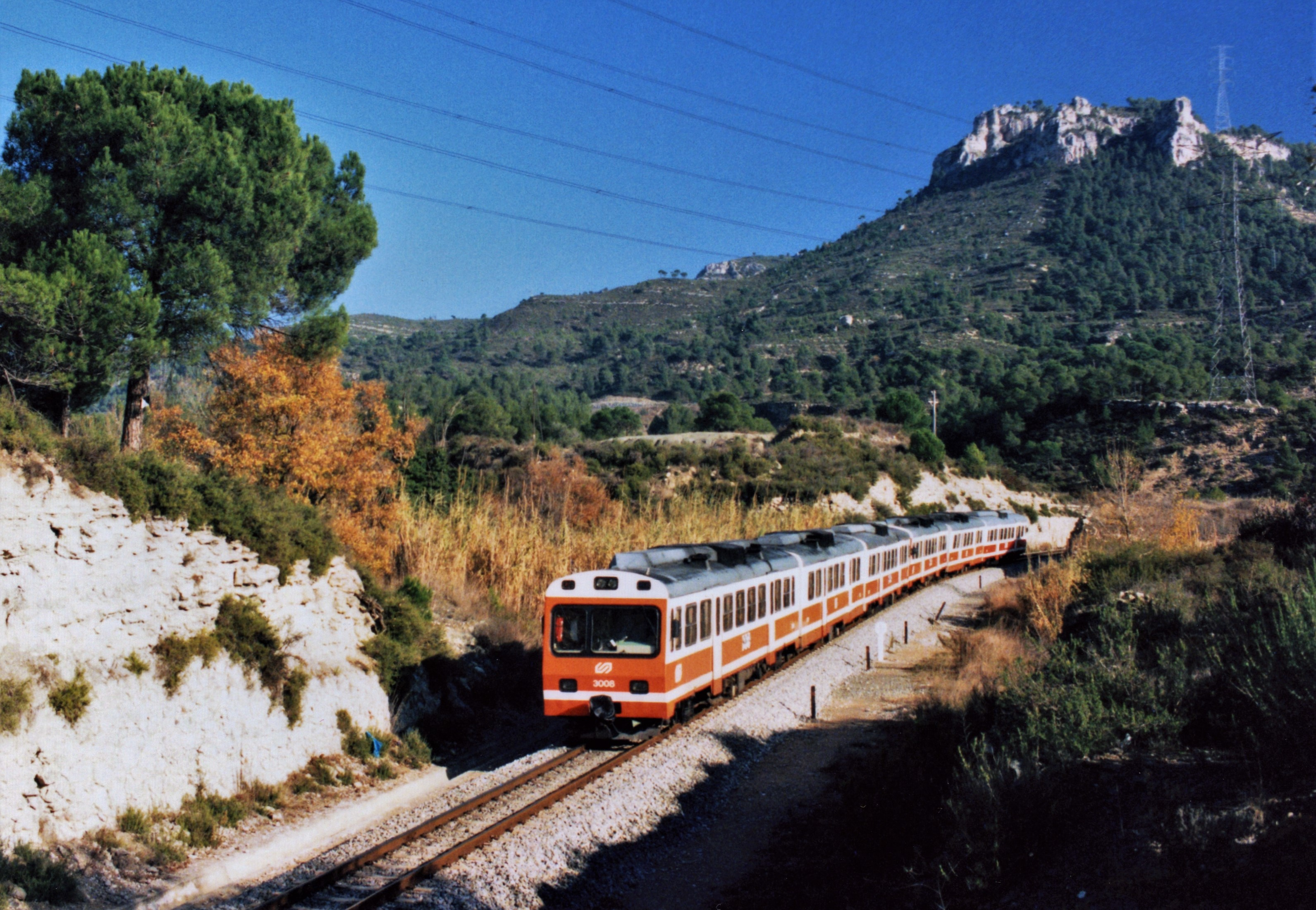 The DMUs 3008-3001-3007 i 3006-4001-3005, working the train P405 from Barcelona Plaça Espanya a Igualada, in La Pobla de Claramunt.